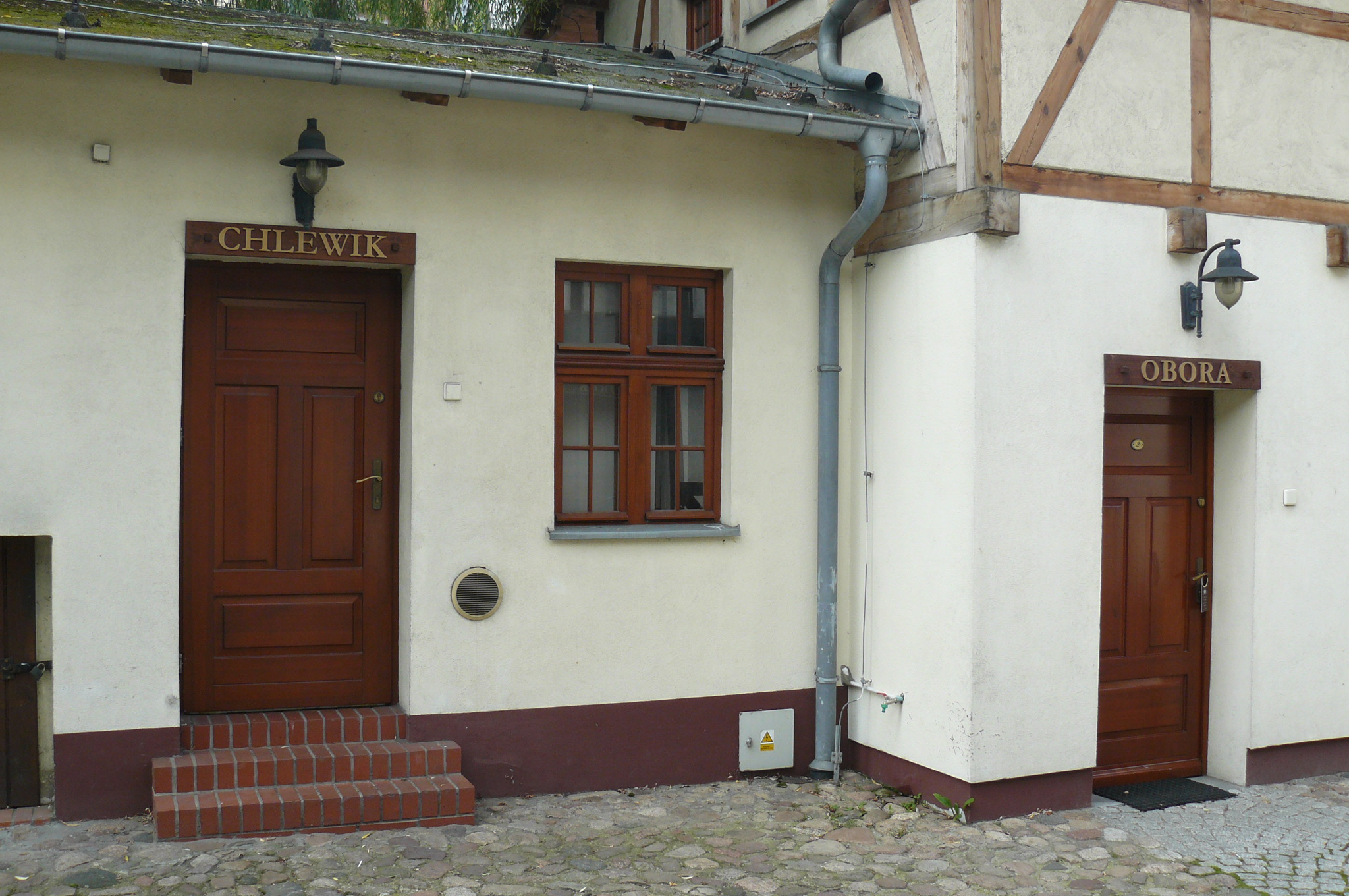 Poznań, Kościelna street. The old rural buildings. Remains of ancient settlements from Bamberg.